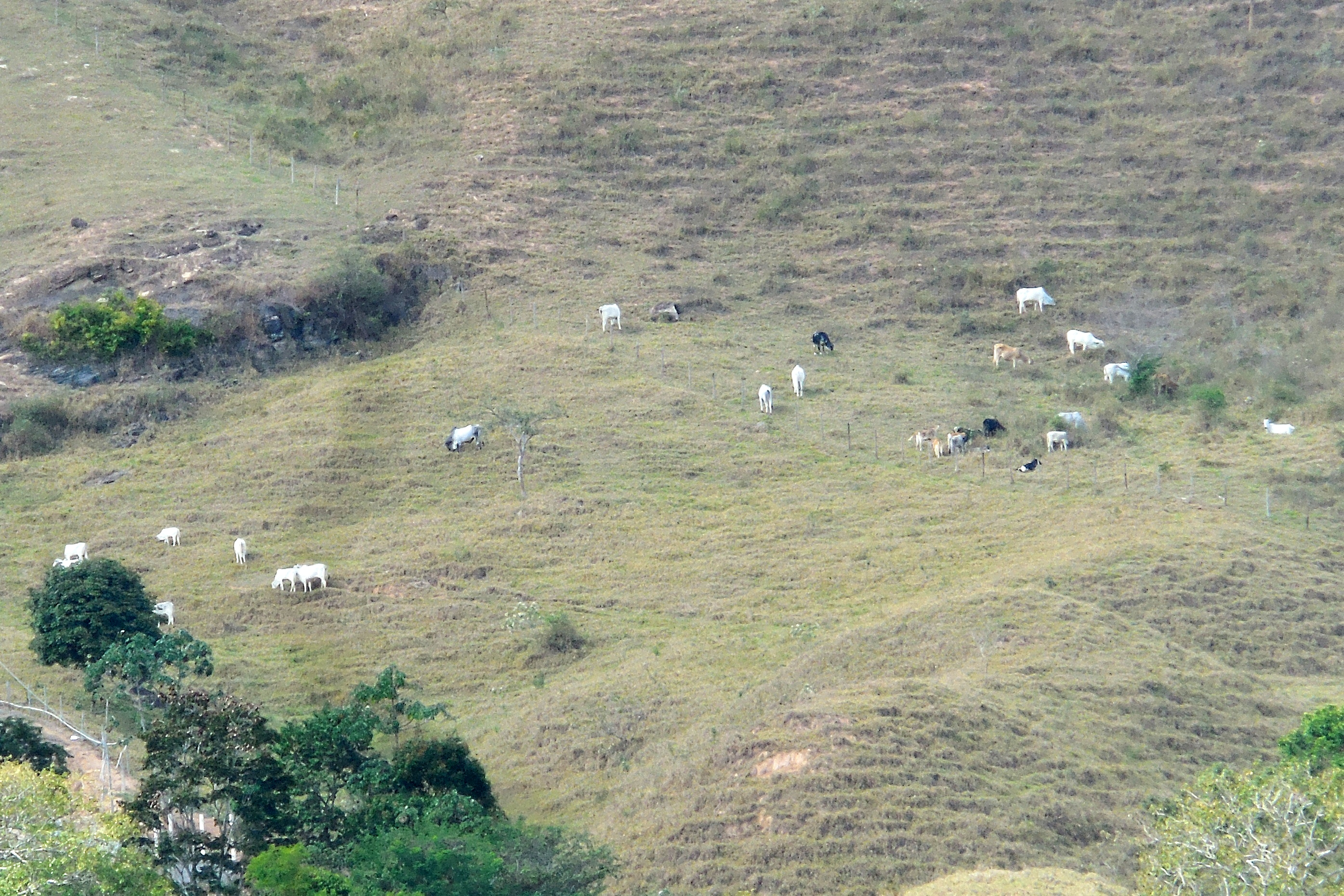 Cattle on hills in Marliéria, Minas Gerais, Brazil.